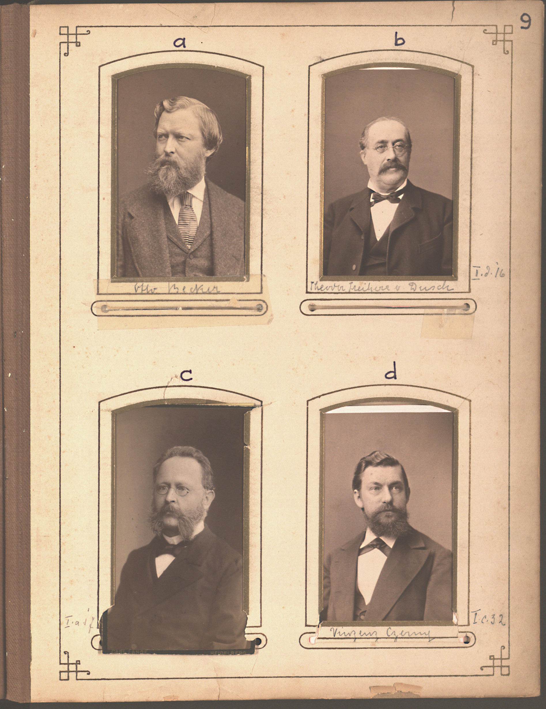 Depicting a: Becker, Otto (Heinrich Enoch). b: Dusch, Theodor Freiherr von. c: Arnold, Julius. d: Czerny, Vinzenz